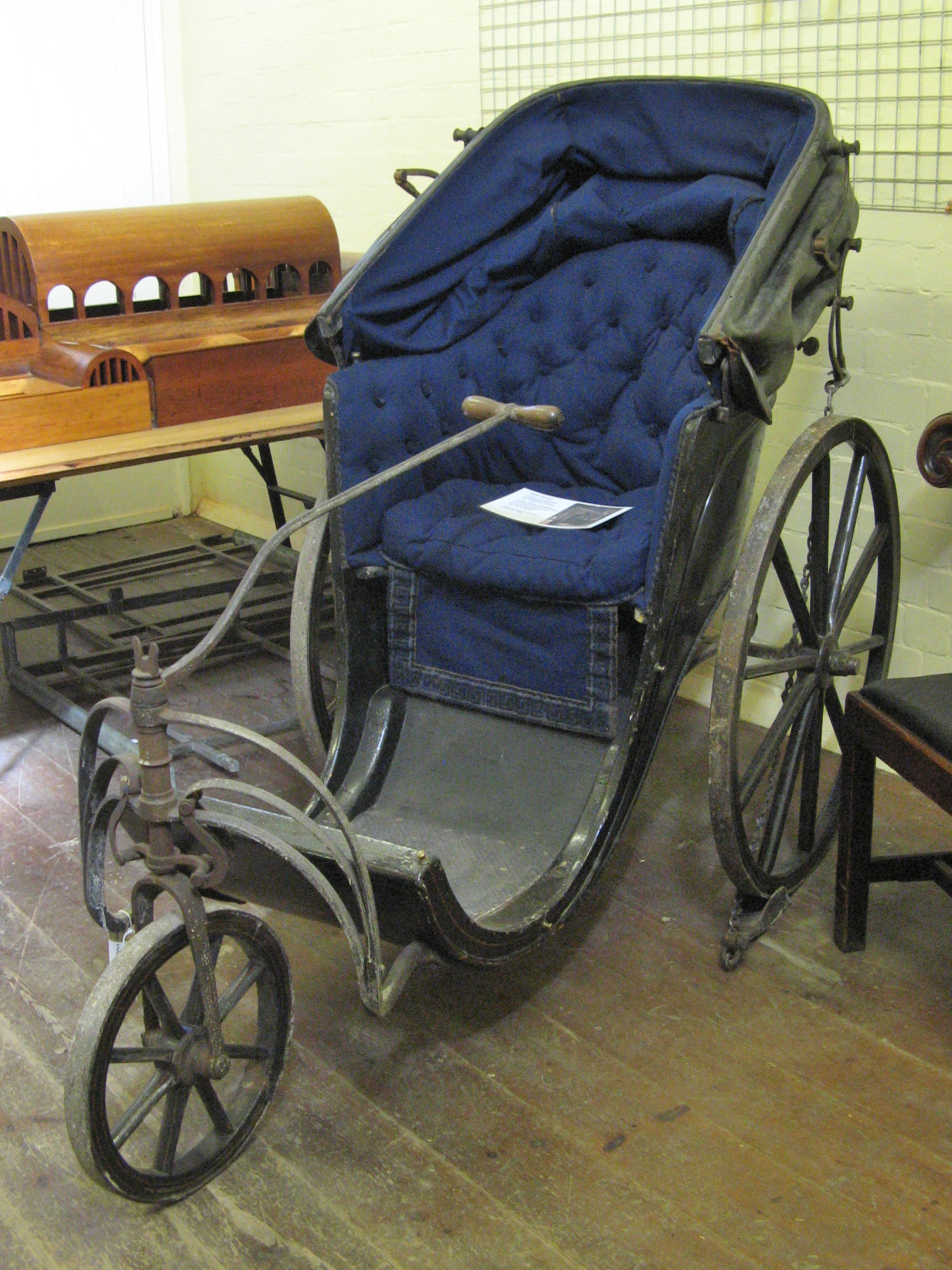 Bath chair in the Roman Baths museum store: St John's Museum Store, Upper Bristol Road, Bath.